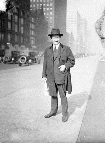 Frederick Cook, taken from [1] (a Library of Congress page) and uploaded for use in that article by me. -Lommer 08:21, 14 Dec 2004 (UTC) From that page: CREATED/PUBLISHED: [1920] SUMMARY: Informal full-length portrait of Dr. Fredrick Cook standing alongside South Michigan Avenue looking north from Congress Avenue in the Loop community area of Chicago, Illinois. In the background (left to right) the Auditorium Theater, the Studebaker Theater, and the McCormick Building are visible. NOTES: This photonegative taken by a Chicago Daily News photographer may have been published in the newspaper. Cite as: DN-0072612, Chicago Daily News negatives collection, Chicago Historical Society. MEDIUM: 1 negative : b&w, glass ; 5 x 7 in. REPRODUCTION NUMBERL: DN-0072612 REPOSITORY: Chicago Historical Society, Clark Street at North Avenue, Chicago, IL 60614-6071.